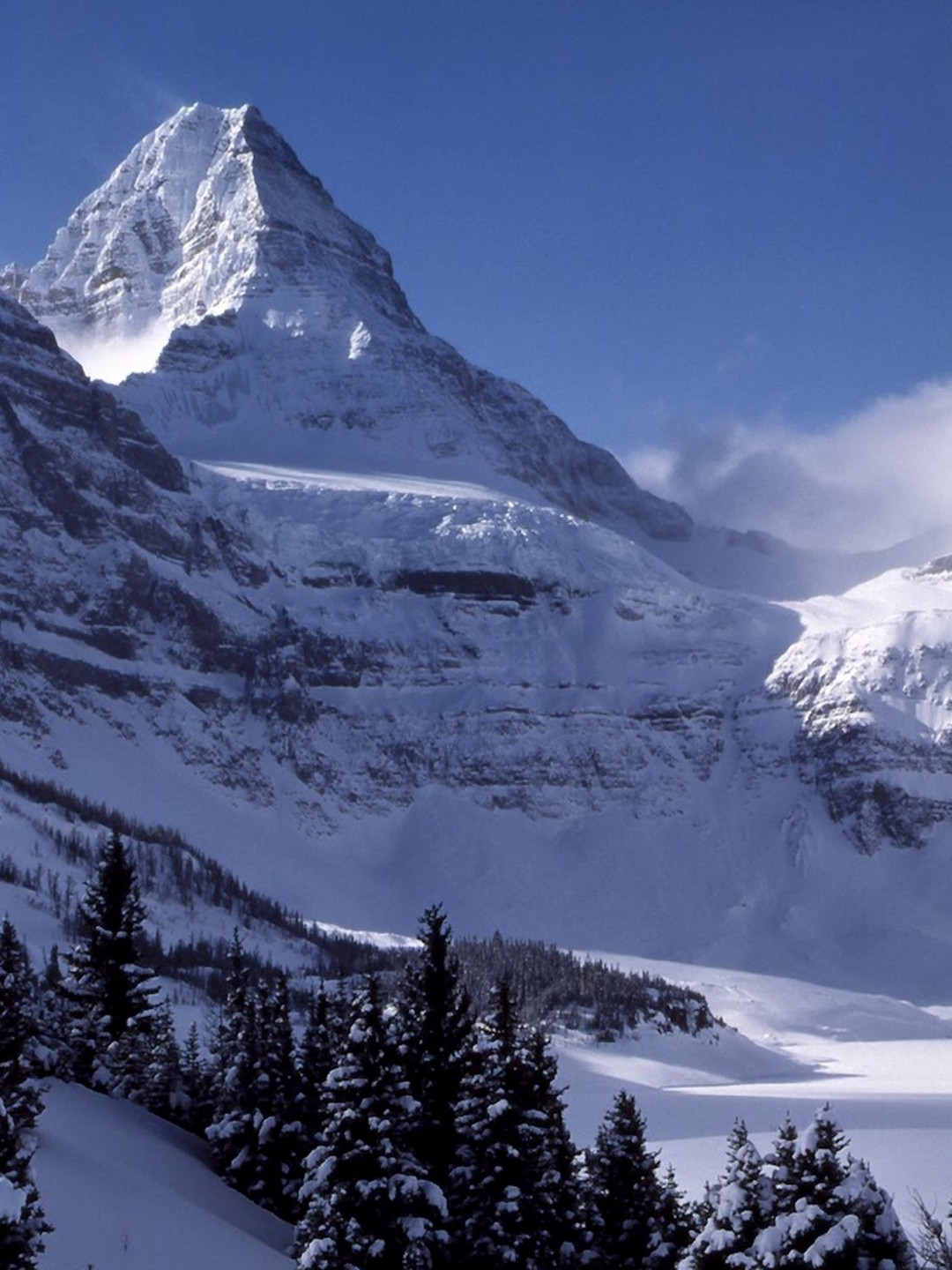 Mt. Assiniboine from above Magog Lake, just outside our door at Naiset Cabins (Huts). We had helicoptered in to the area and we skied out. According to the Climber's Guide, it is the: Dominant peak of the Southern Rockies; highest mountain between the International Boundary and Trans-Canada Highway and sixth highest of range.[1].